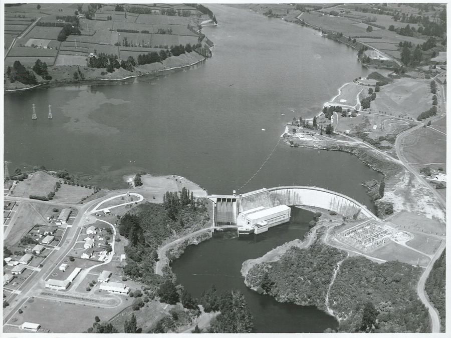 Title: Hydro-Electric Projects - Karapiro Publicity Caption: Aerial view of Karapiro Hydro Power Station, Waikato River Photographer: Mr Anderson February 1969 Archives New Zealand Reference: AAQT 6539 W3537 90 / A89296